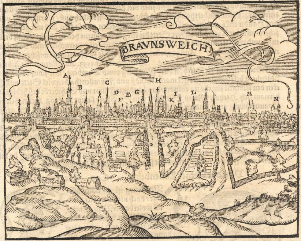 Woodcut of the City of Brunswick, dating from approx. 1550